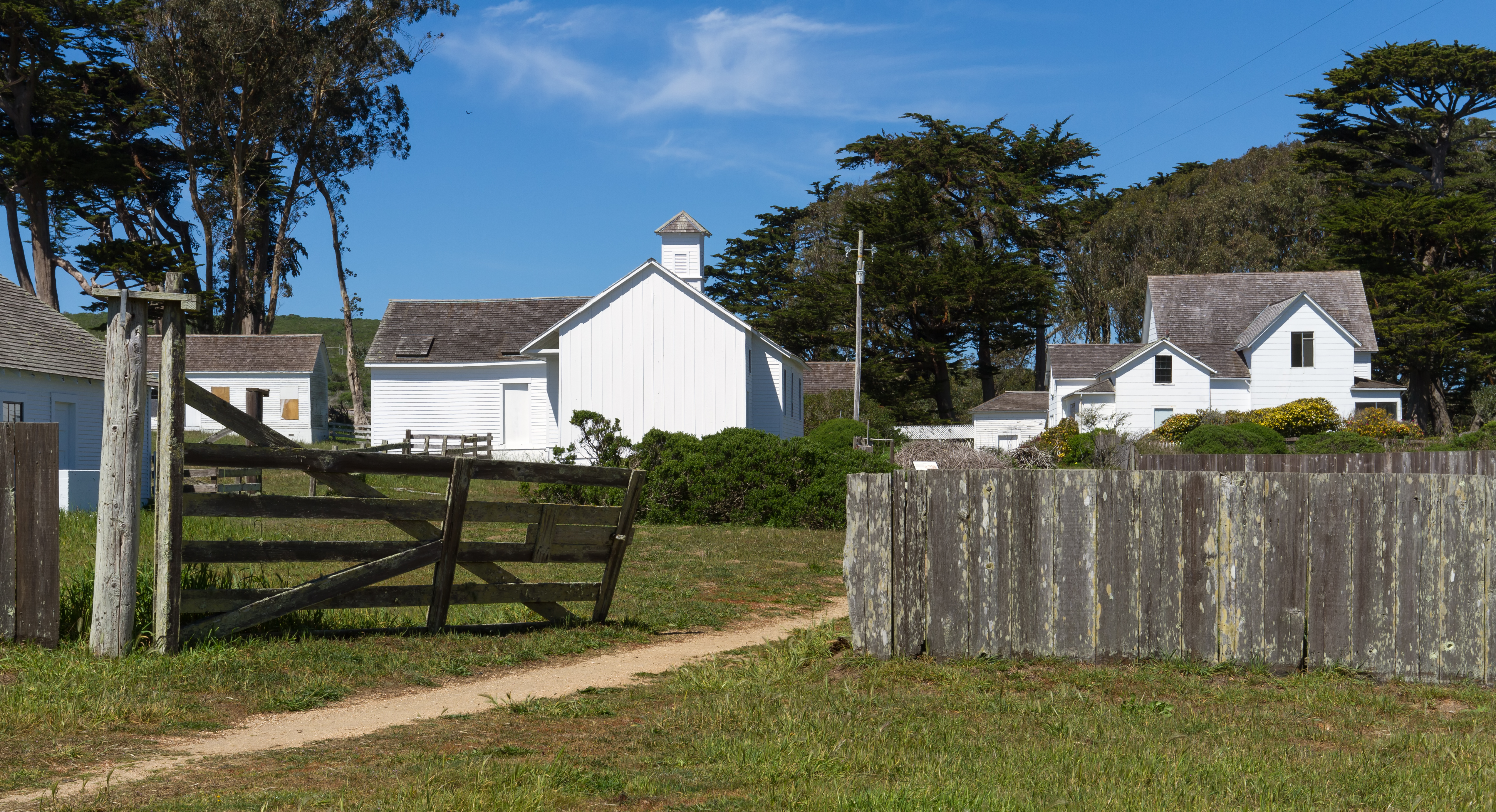 Pierce Point Ranch, Point Reyes National Seashore, California